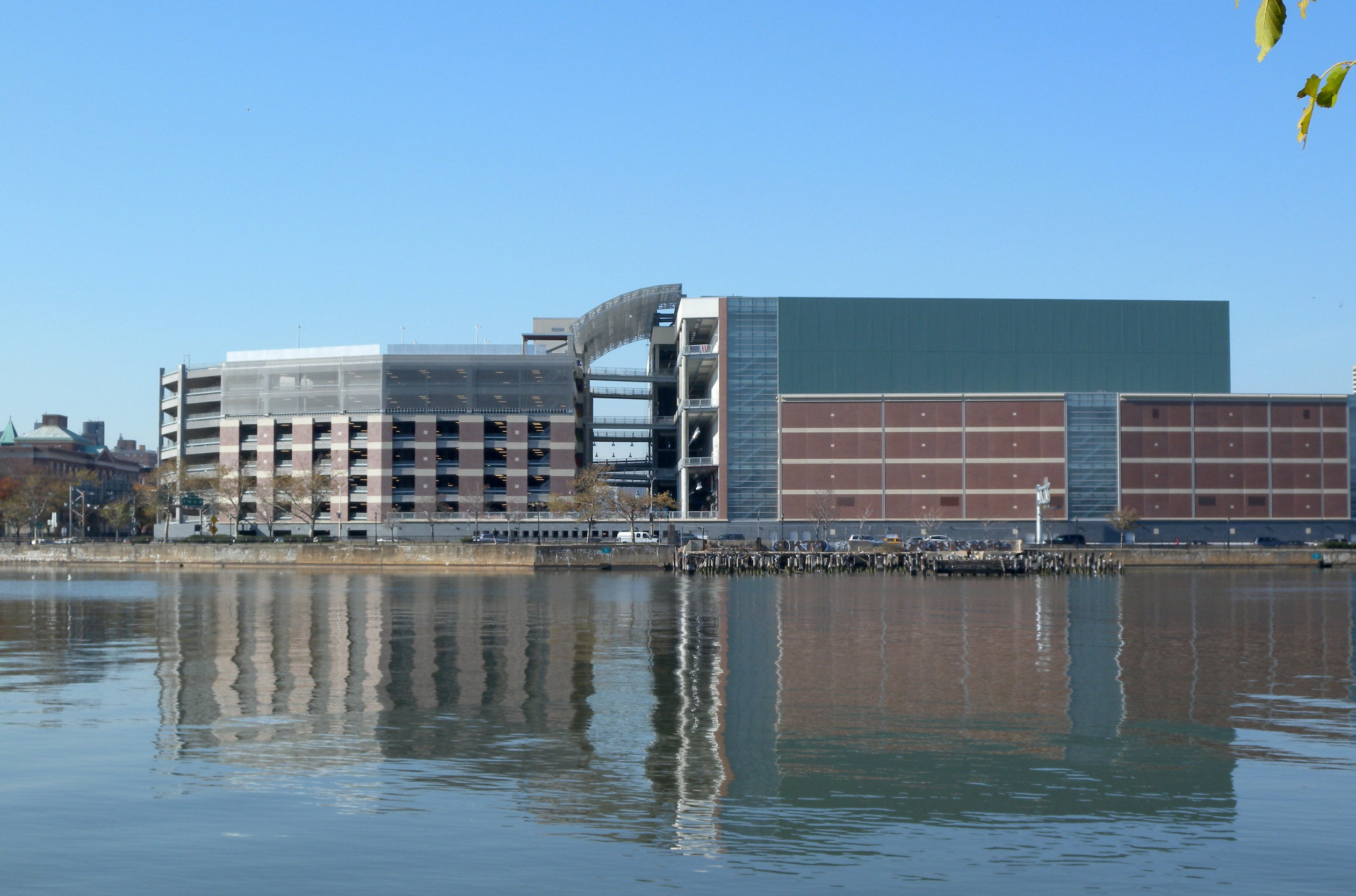 Looking west across Harlem River from Randalls Island at East River Plaza shopping center on a sunny November midday. Parking on left; shopping on right. EXIF says September due to photographer's error.